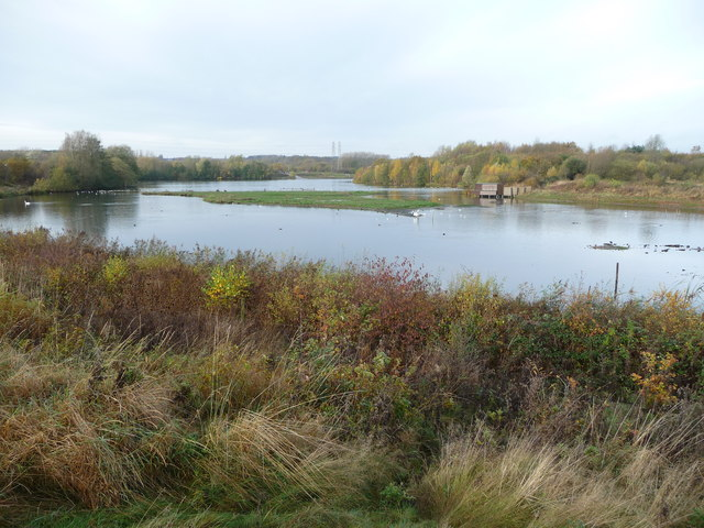 Forge Mill Lake, Sandwell Valley Country Park Its hard to believe this is sandwiched between West Bromwich and Birmingham.